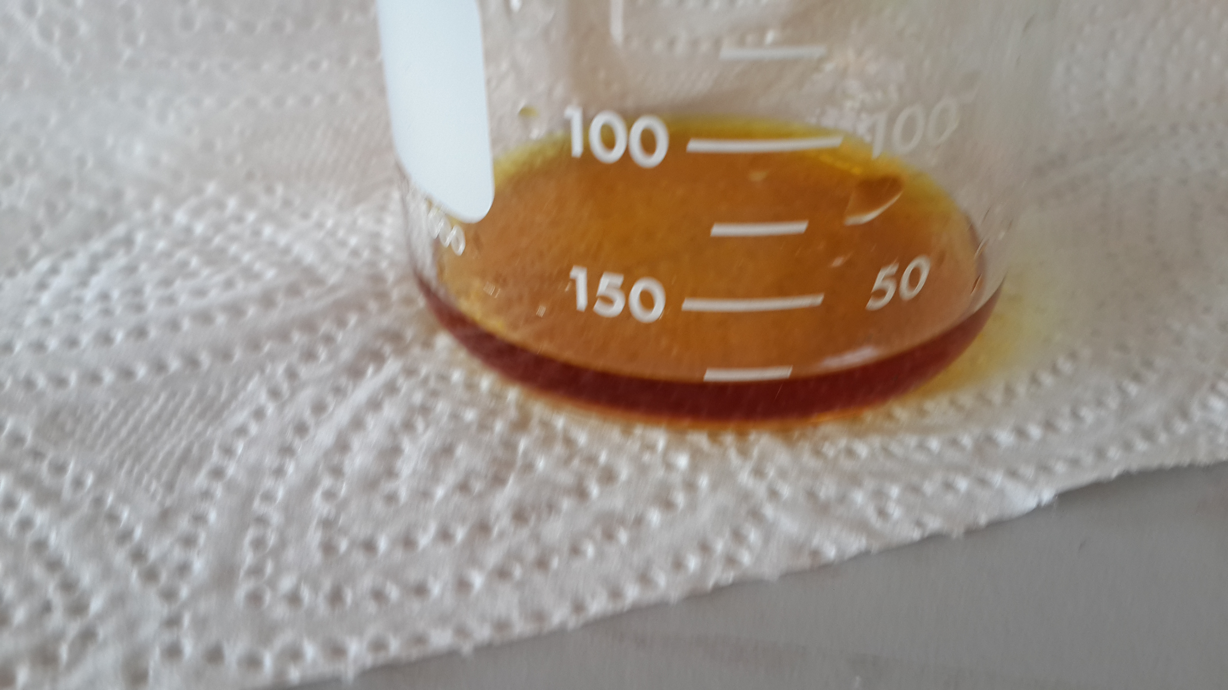 Aqueous Iodine solution before being used to test for starch